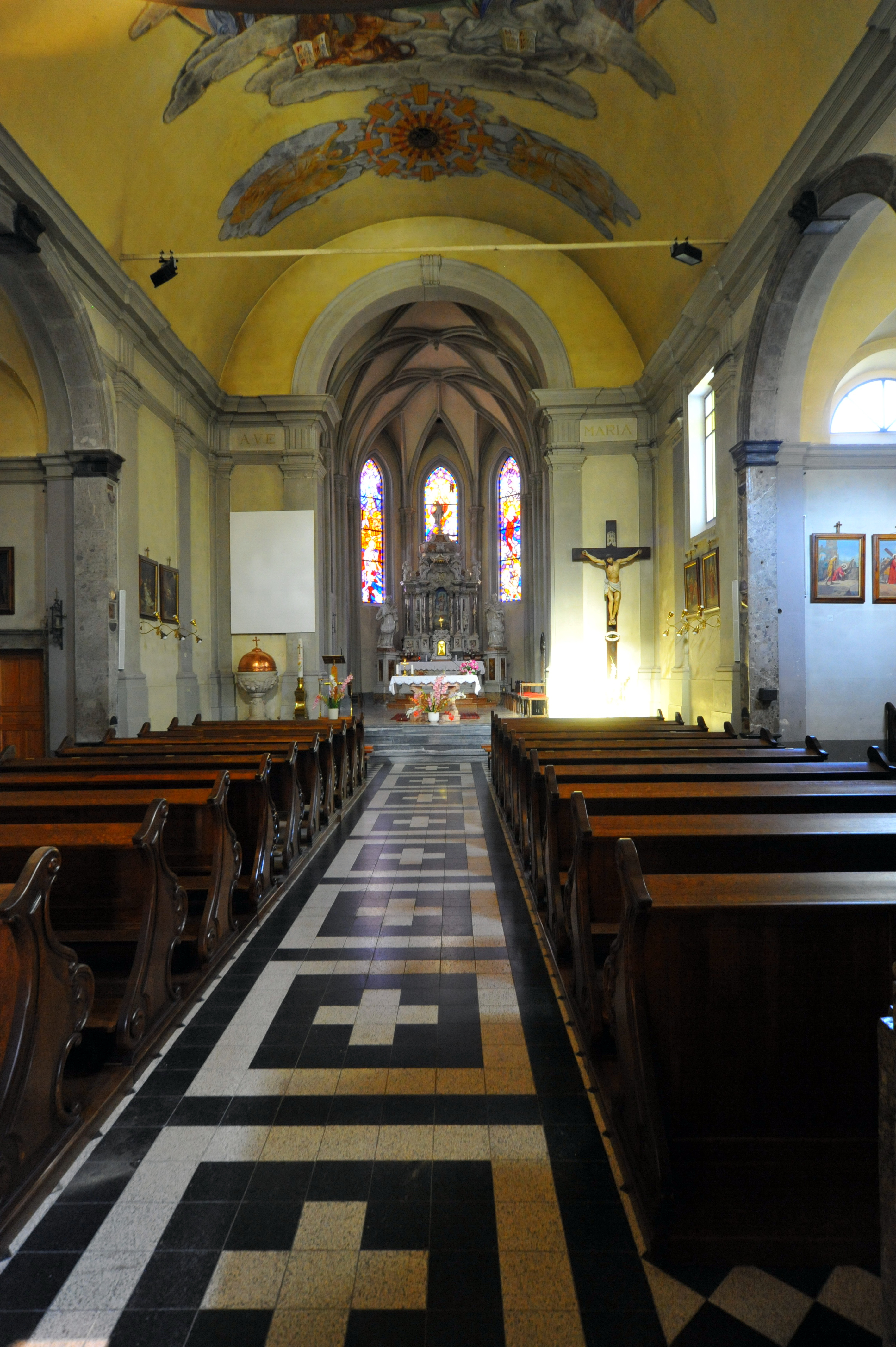 Interior of the parish church Assumption Day in Kanal ob Soči, Primorska, Slovenia